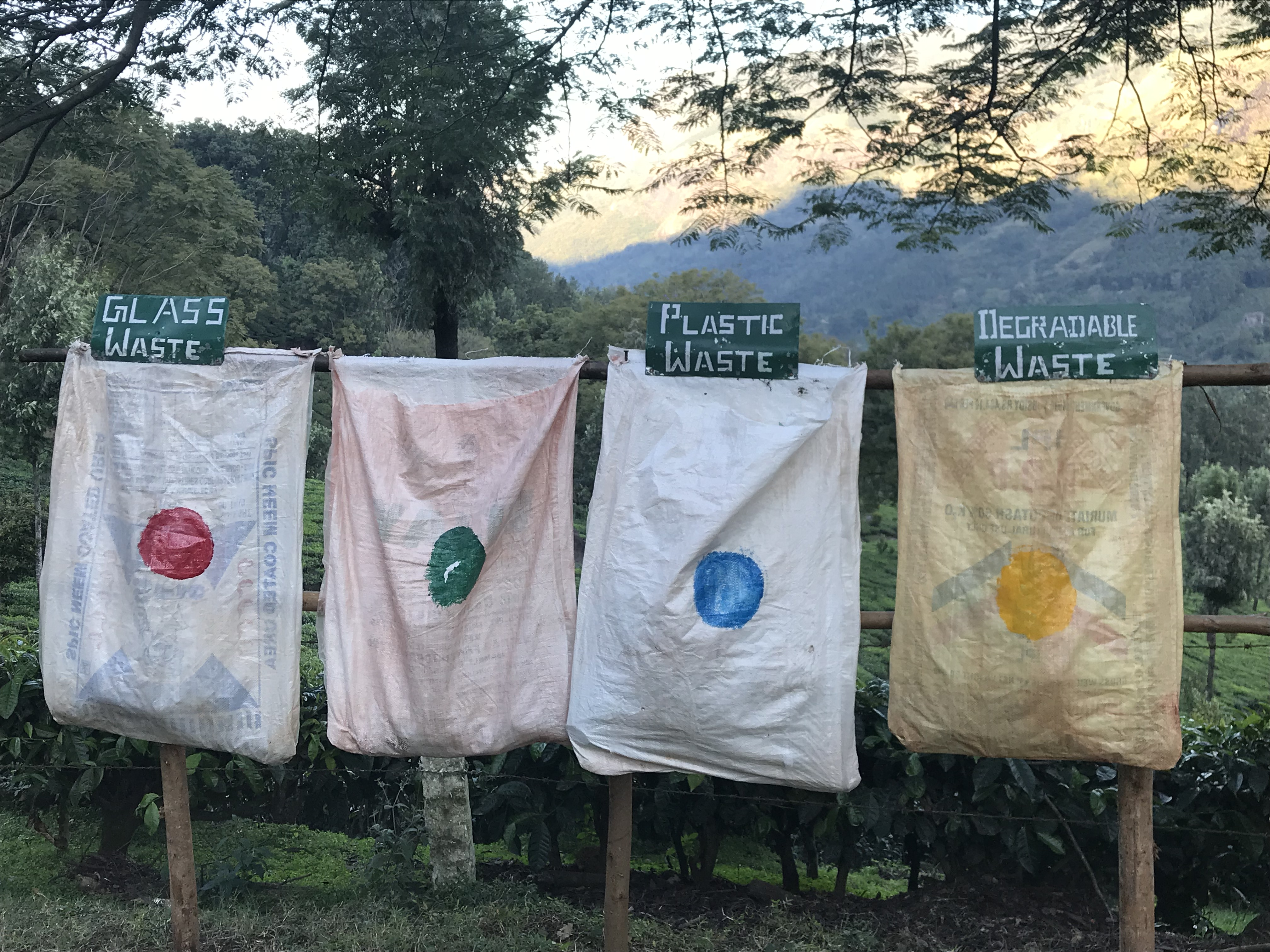 Public trash cans,made by local farmers, in a small hill town,Devikulam,Idukki District,Kerala,India.